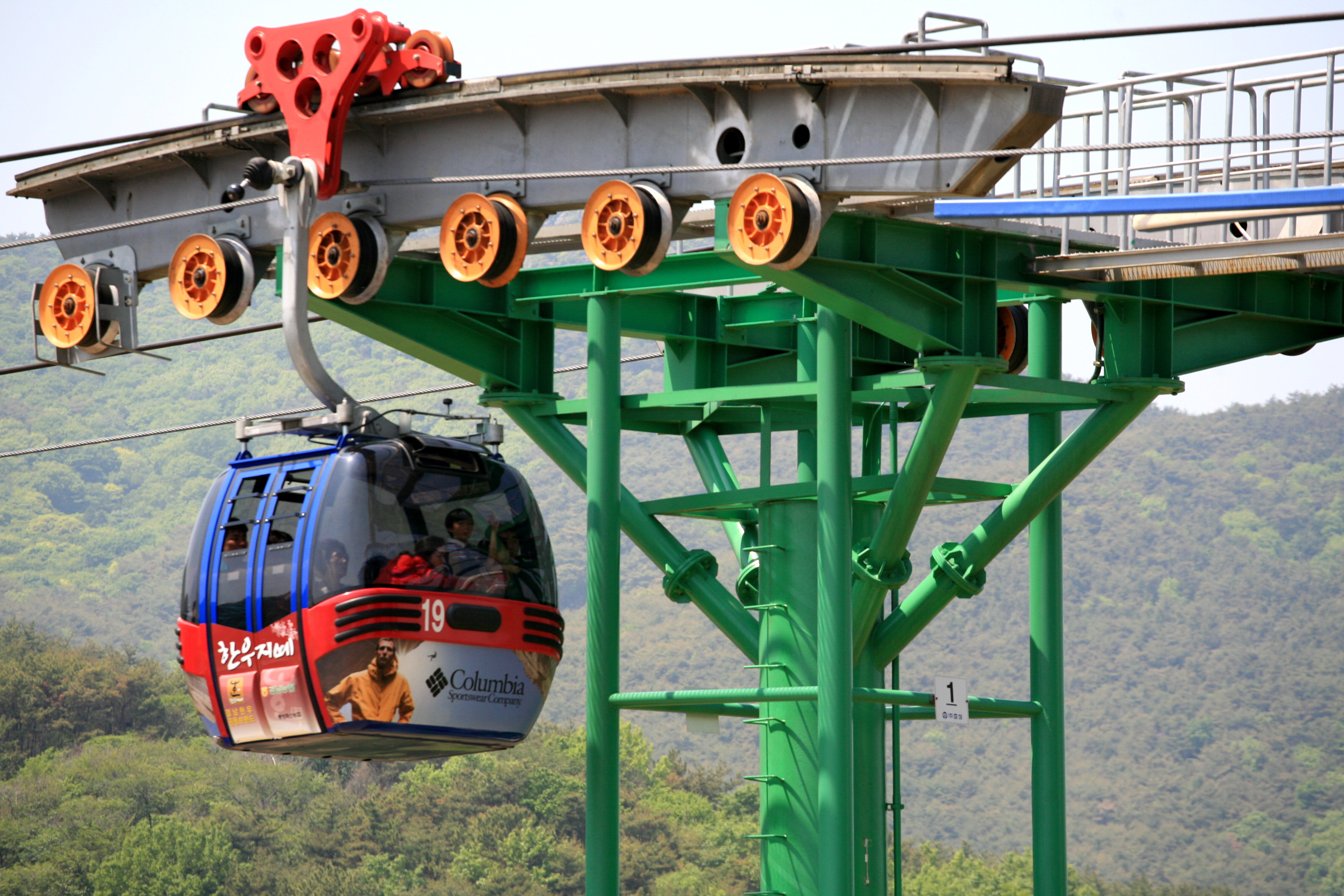 View of Hallyeo Waterway Observation Cable Car in Tongyeong, South Gyeongsang province, South Korea